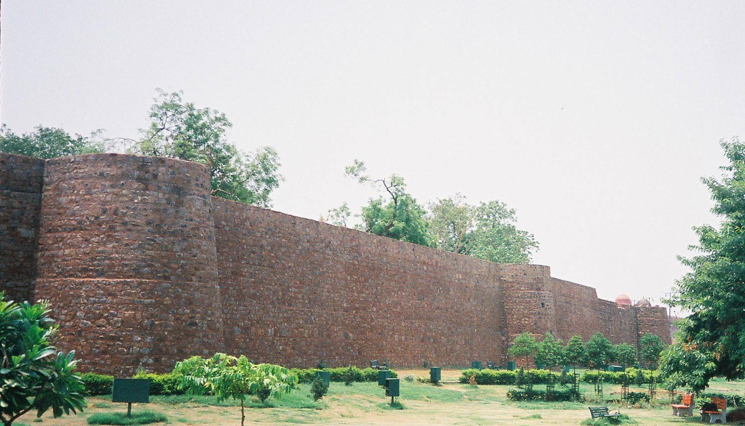 Exterior view of the Salimgarh Fort with bastions